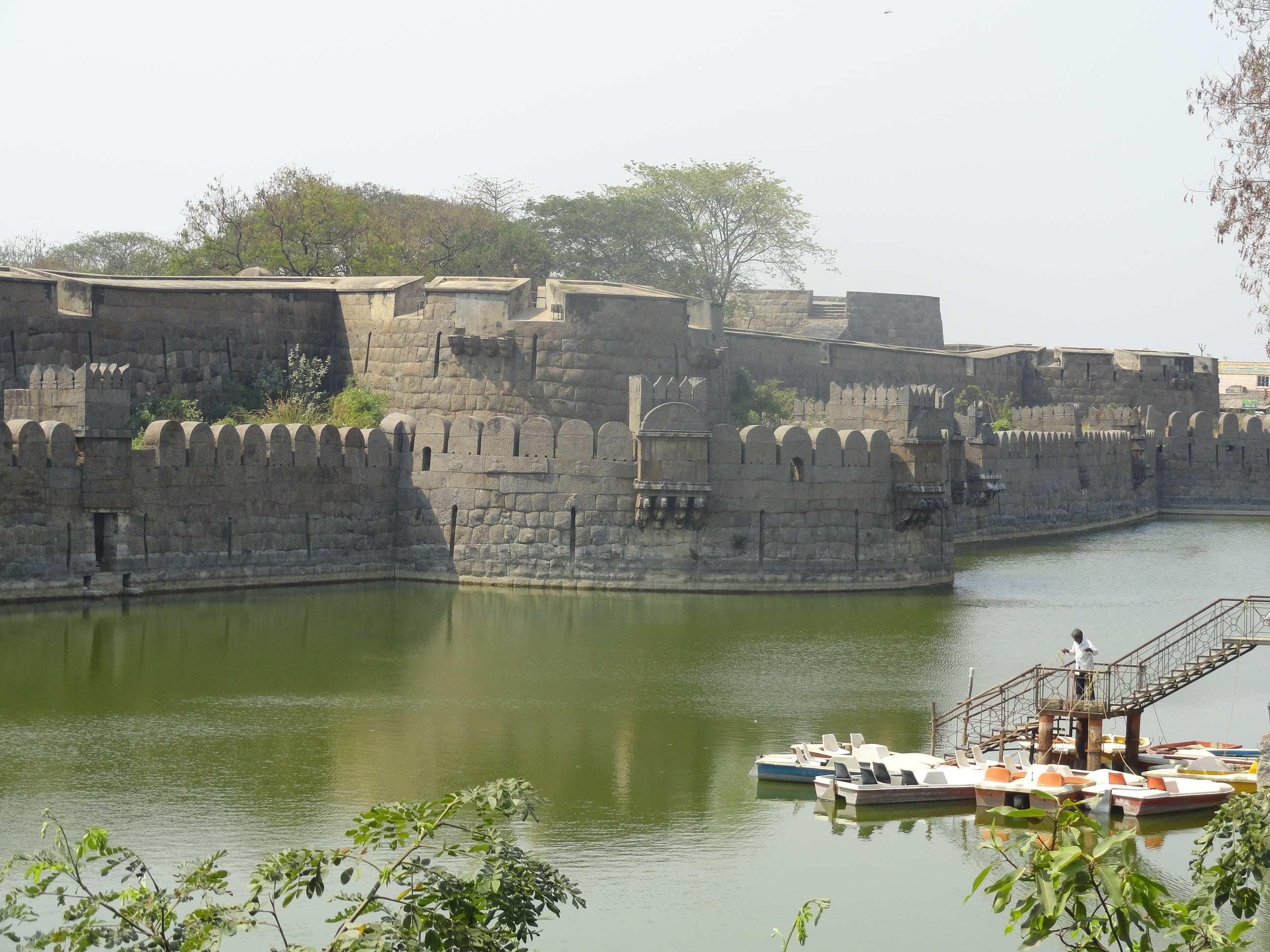 beautiful view of Moat and wall of Vellore Fort.